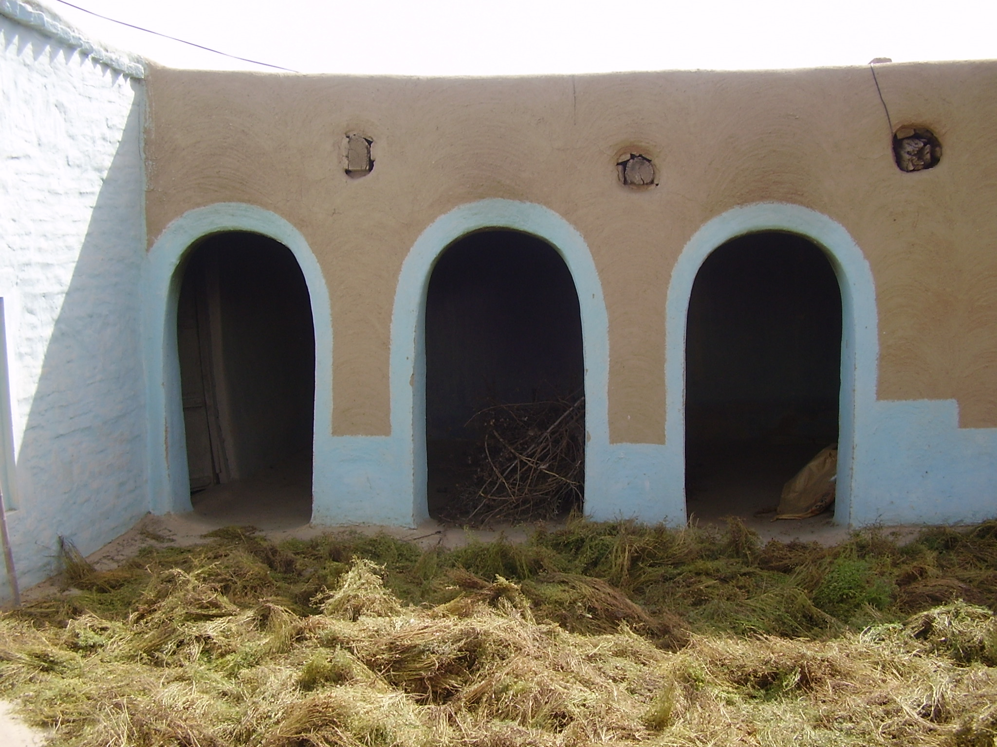 Crop is being dried in a rural home in Punjab